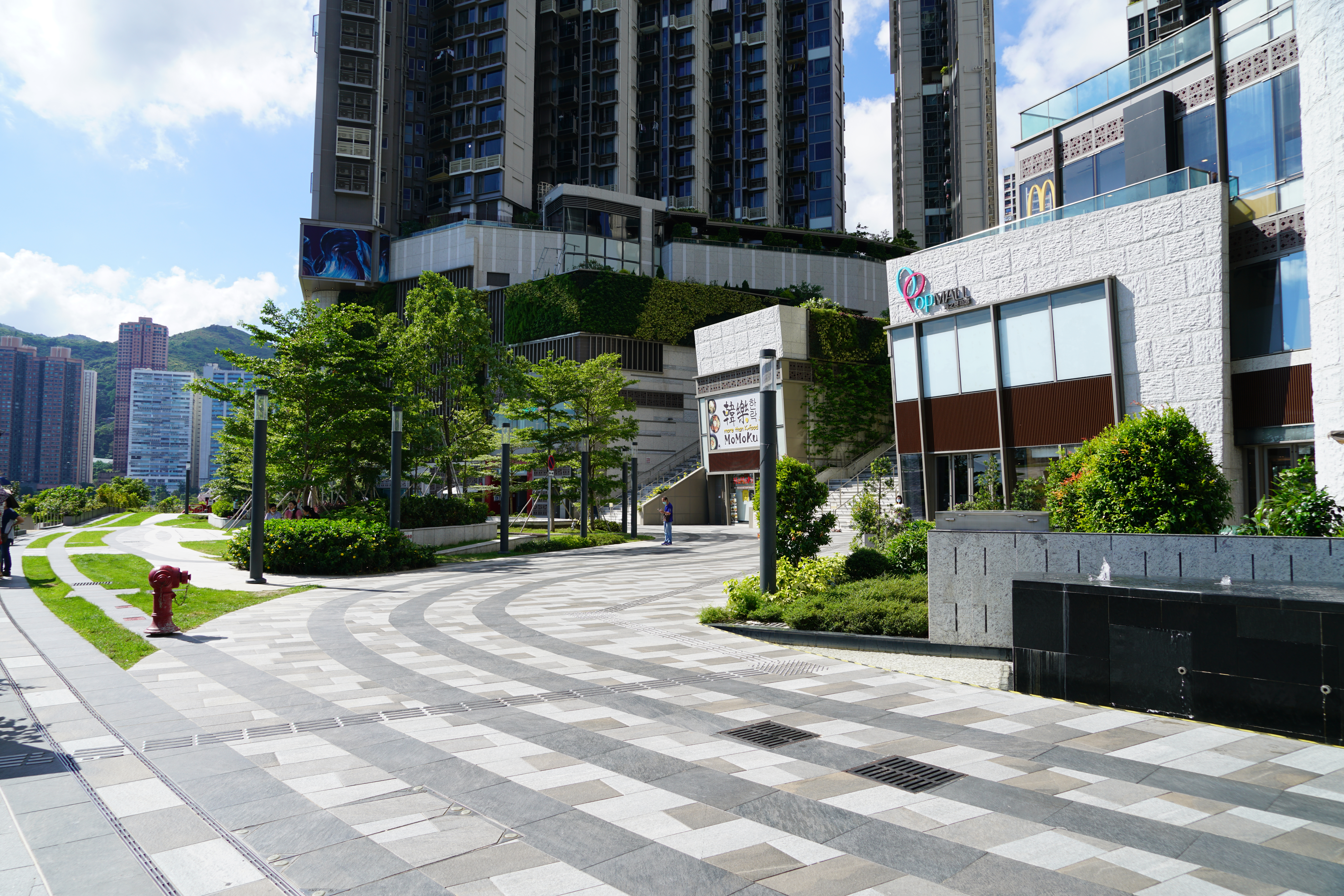 OP Mall, Hong Kong.